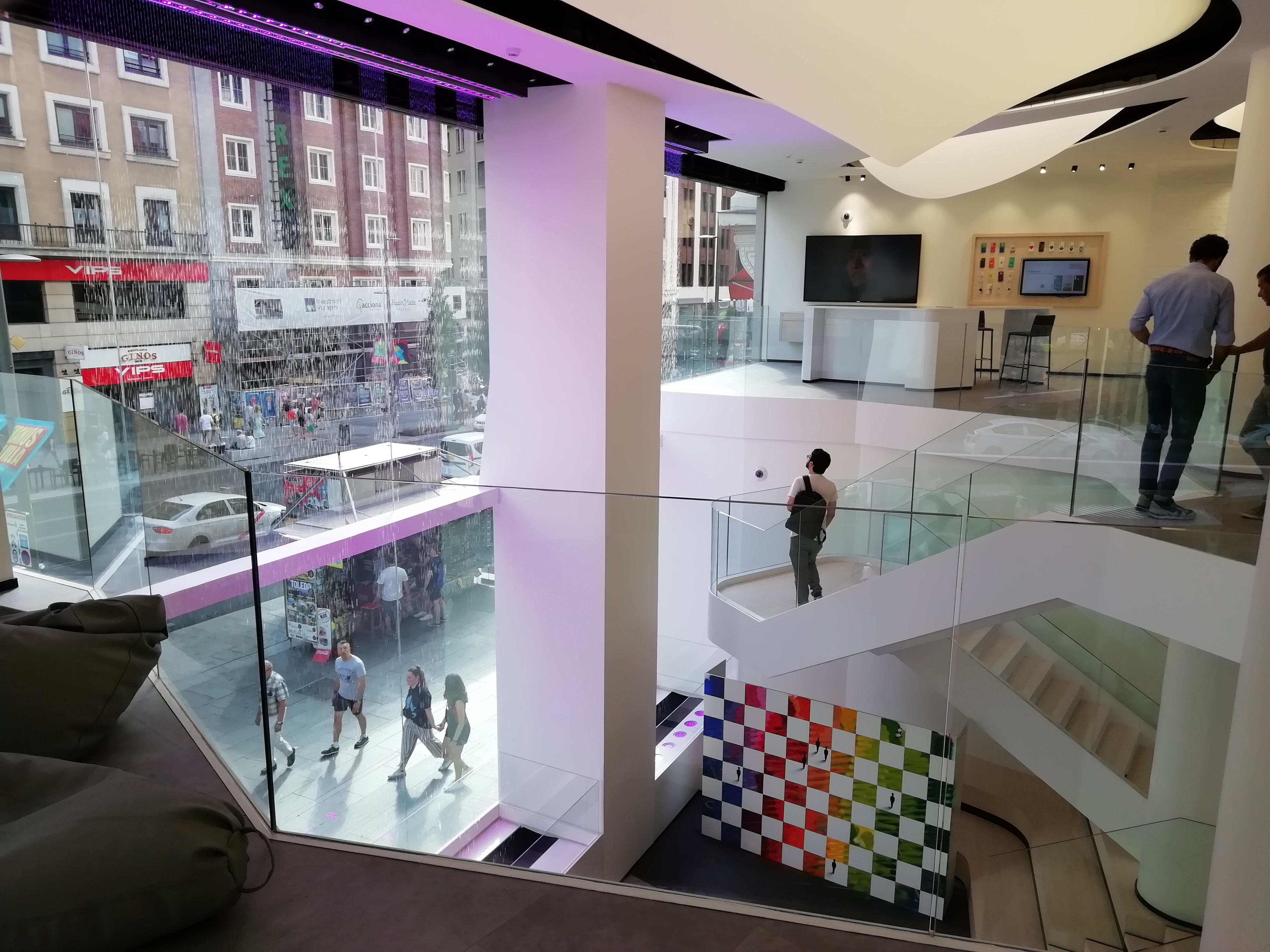 Huawei flagship store at Gran Vía 48, Madrid